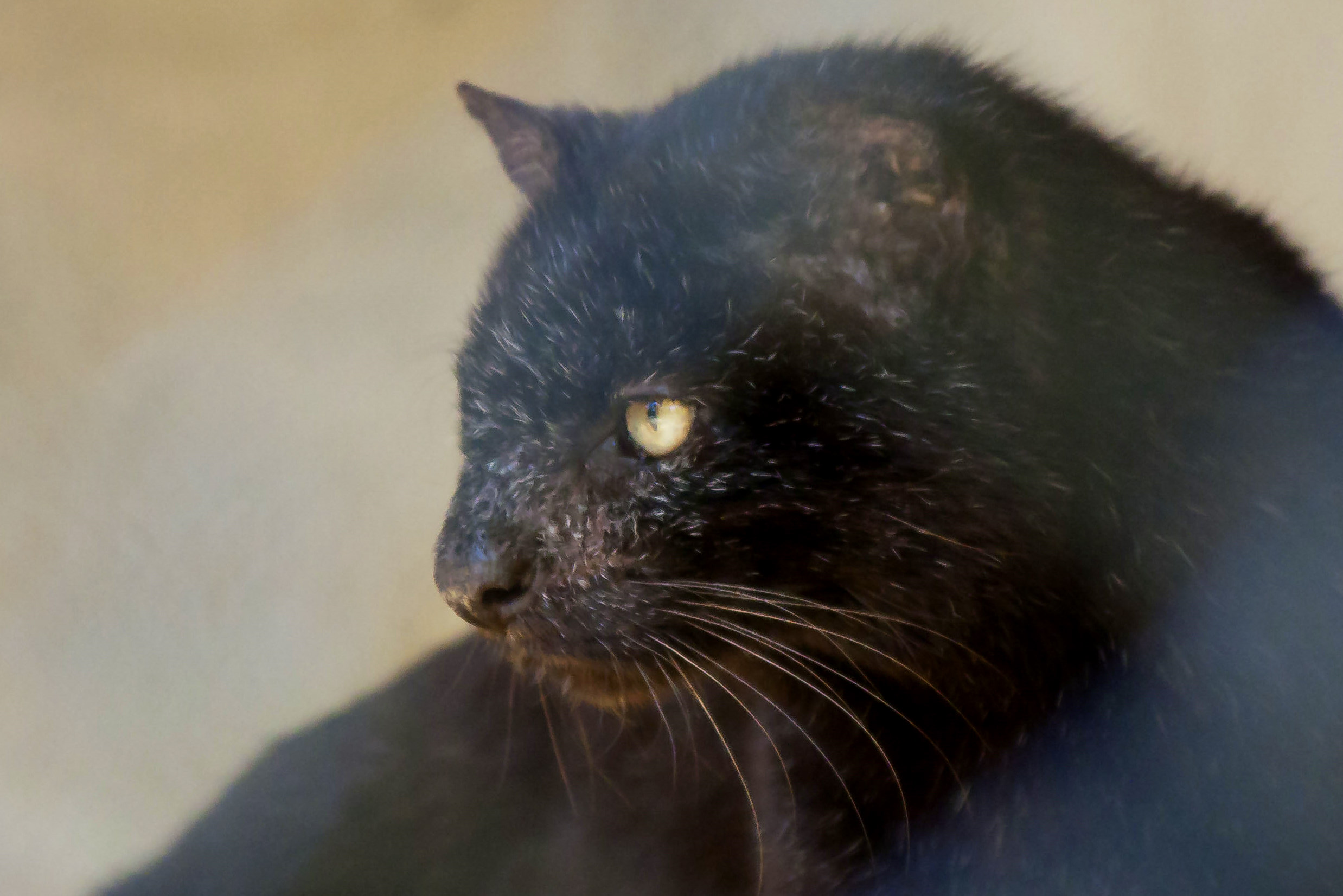 Geoffroy's cat with melanism (Leopardus geoffroyi) - Zoo São Paulo, Brasil